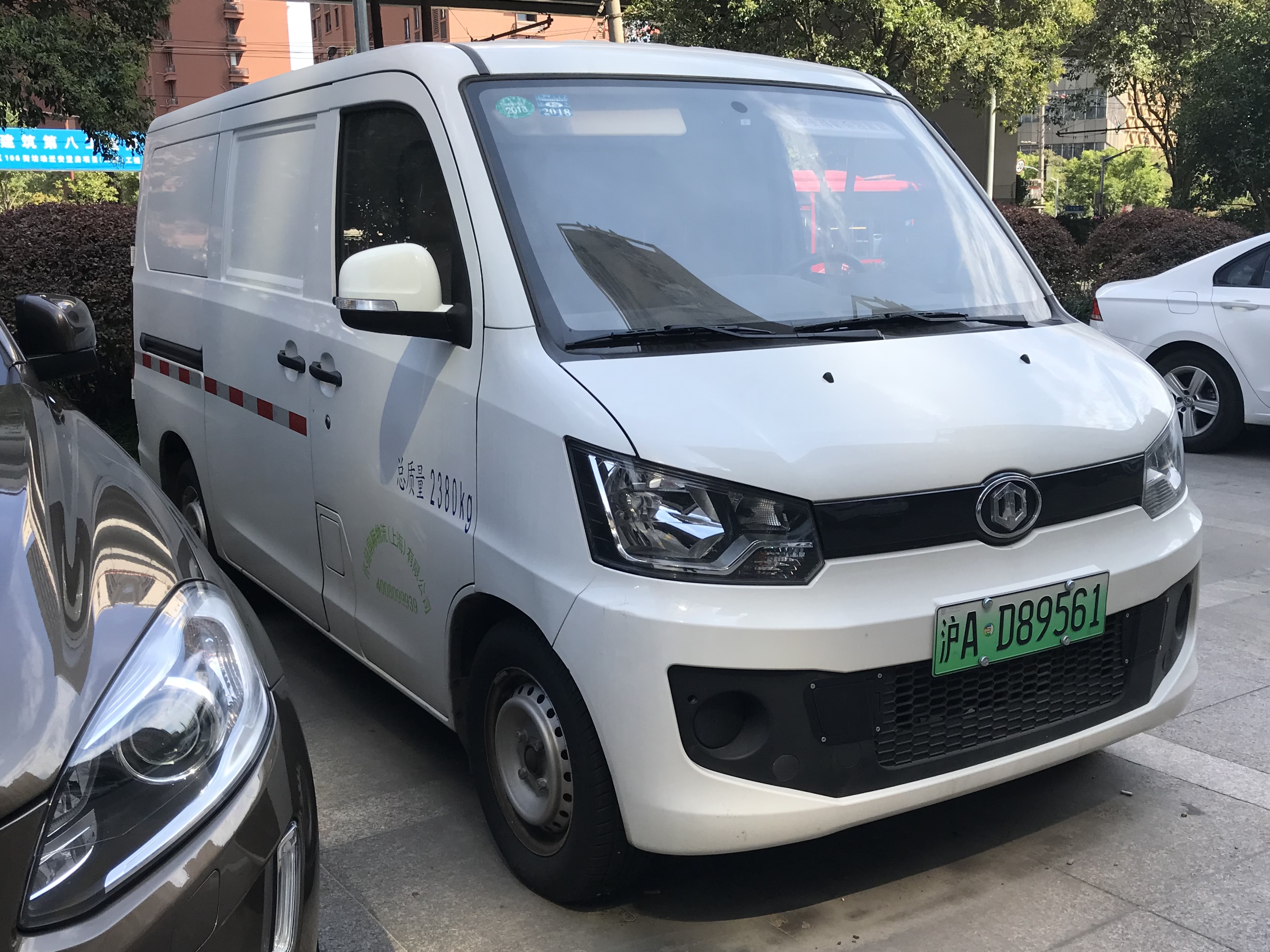 NAC Chang Da H9 front